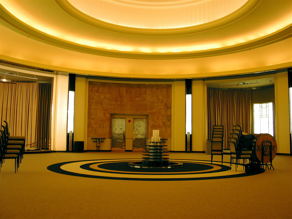 The Round Room in the Carlu (formerly Eaton's Seventh Floor) in Toronto, Canada